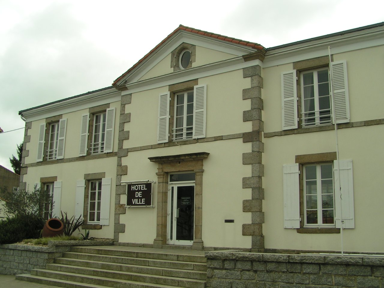 City hall of Moncoutant, Deux-Sèvres, France